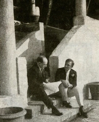 Screenshot of image of Lubin studios writer Lawrence S. McCloskey reading his script to Raymond Hitchcock on the steps of the comedian's home on Long Island, New York, spring 1914; illustration in article "How The Ringtailed Rhino Won Over Raymond Hitchcock", The Movie Pictorial (New York, N.Y.), October 1, 1914, p. 20.